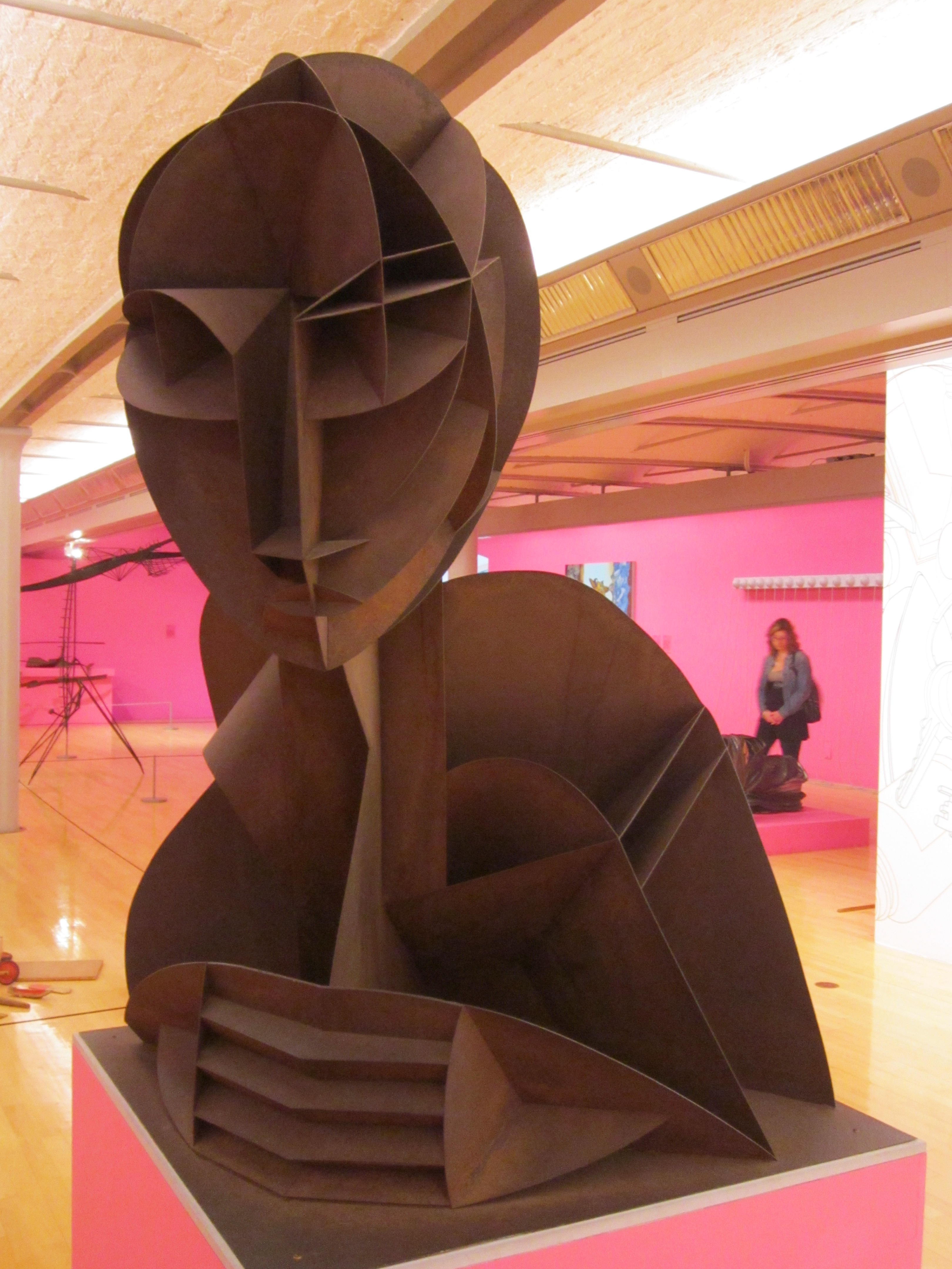 Head No. 2 by Naum Gabo, Tate Liverpool, England.